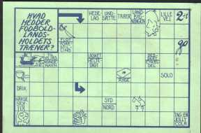 Jolly etiket